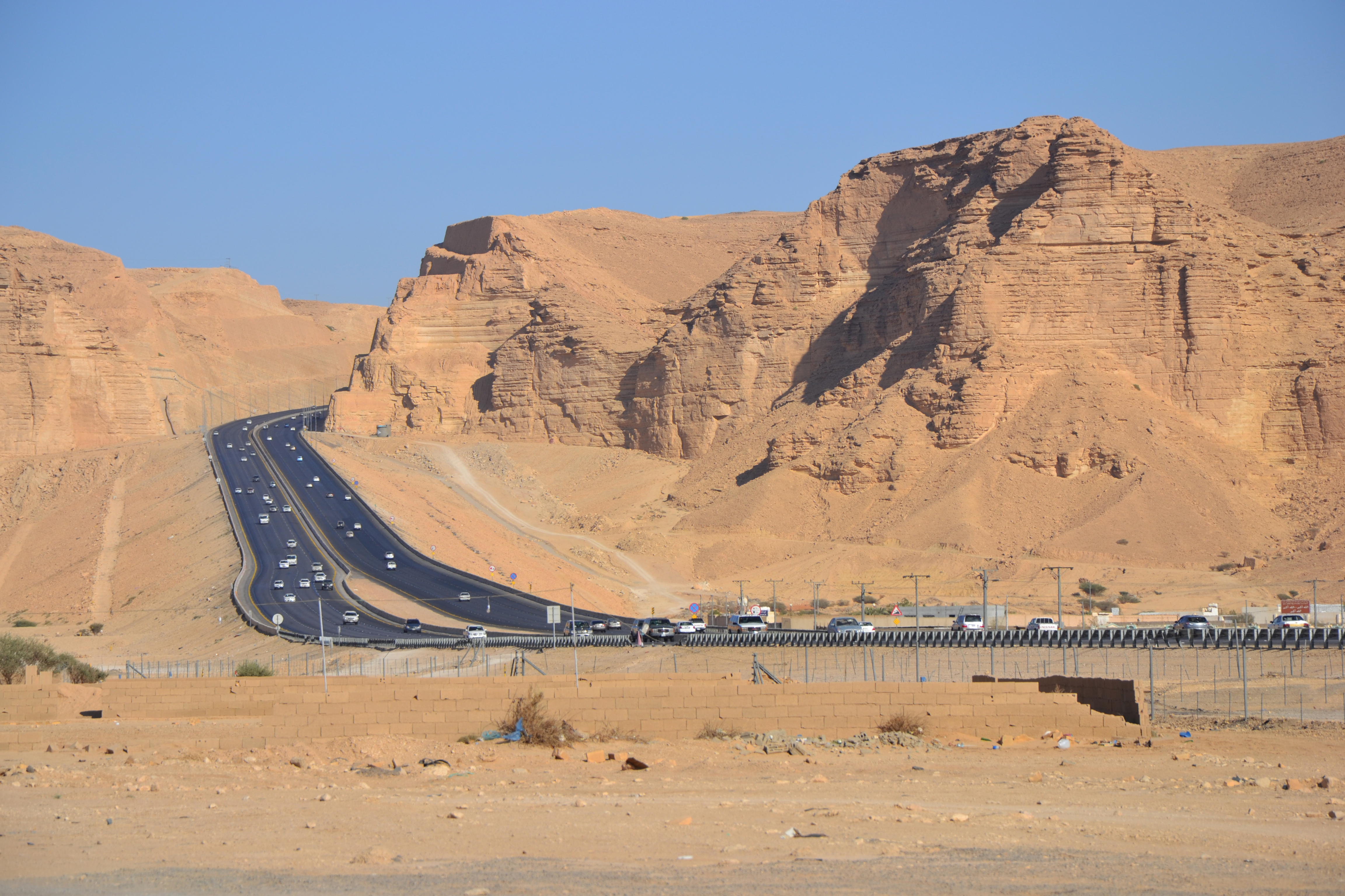 Saudi Arabia